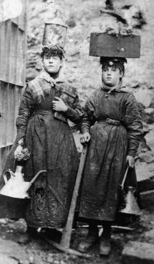 Two pit brow women, female surface labourers at a British colliery